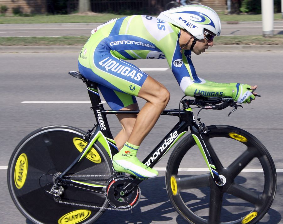 Vincenzo Nibali at the 2009 Eneco Tour prologue